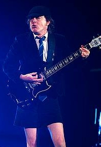 Angus Young at the Tacoma Dome in Tacoma, Washington, November 30, 2008.